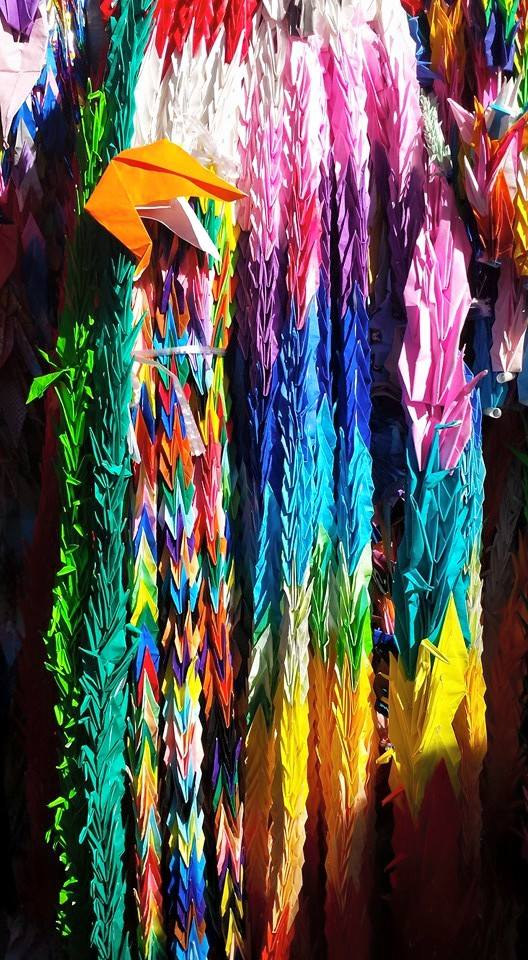 Paper cranes hanging outside the Children's Peace Monument in Hiroshima, Japan. The paper crane is a symbol of peace.